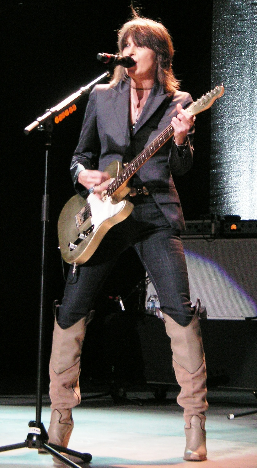 Chrissie Hynde in concert. Taken August 10, 2007 in Santa Barbara, CA by John Slonaker.